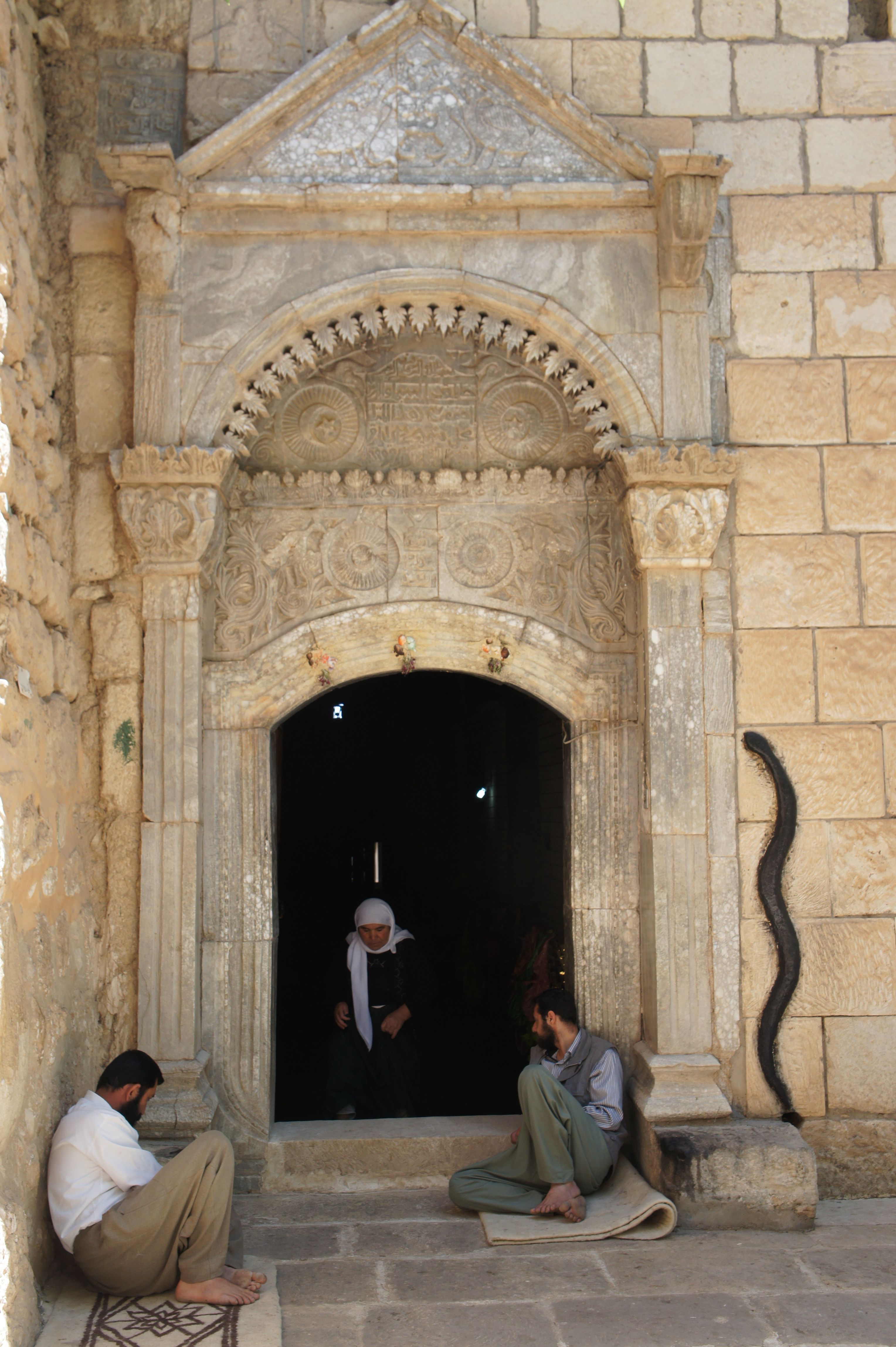 Temple entry at Lalish Kurdî: Dergehê perestgeha Lalishê